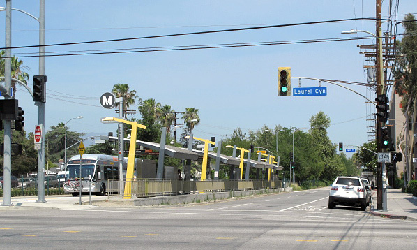 A westbound Orange Line bus passing the eastbound stop at Laurel Canyon Blvd. at Chandler Avenue, in the San Fernando Valley, Los Angeles, California.